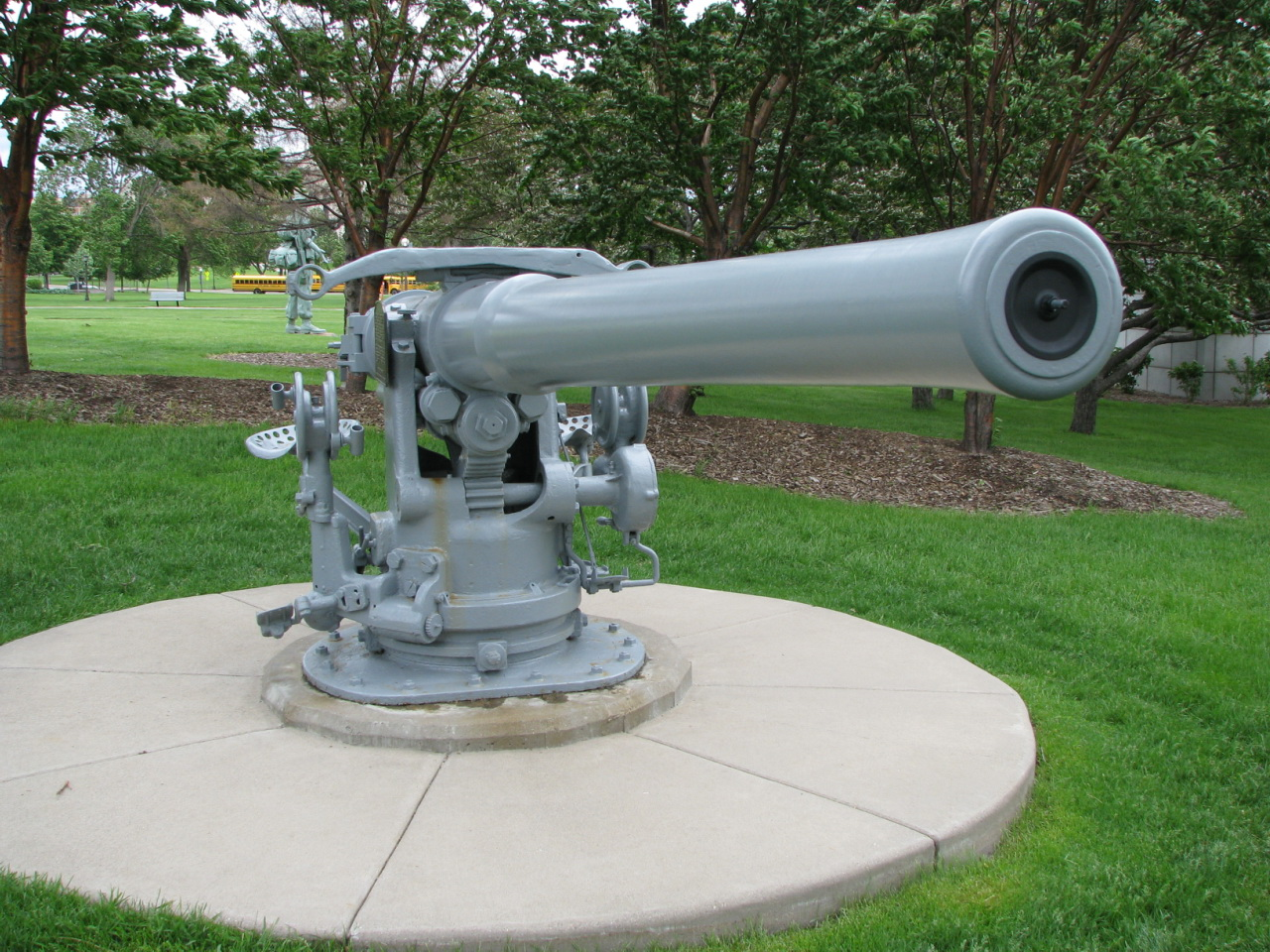 "On the south-west lawn of the Minnesota Capitol Mall the USS Ward gun announces your arrival to the Memorial. This 4"/50 caliber gun signaled that our nation was at war when it fired America’s first shot of World War II, and sinking a Japanese midget submarine, at Pearl Harbor on that fateful day on December 7, 1941".